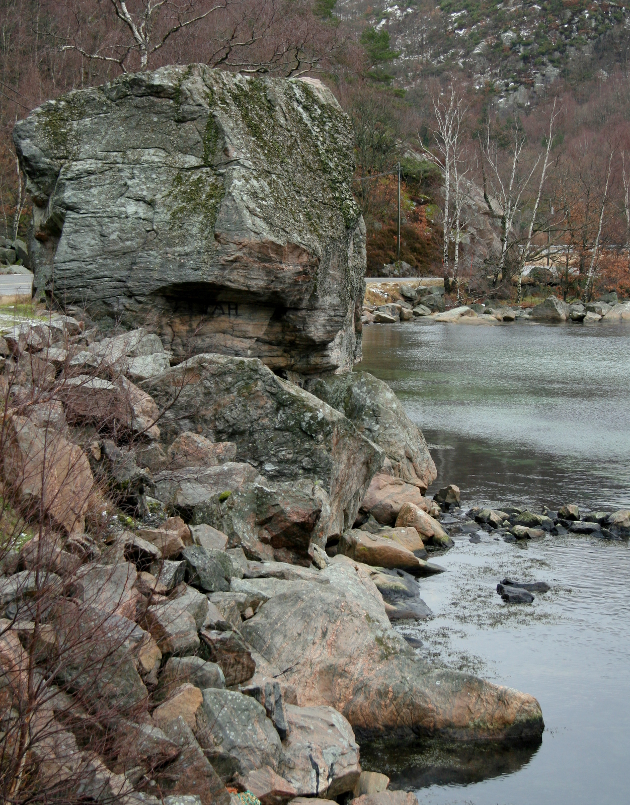 The rocks of Remesvika coast, on the Skagerrak in Lindesnes, Norway.